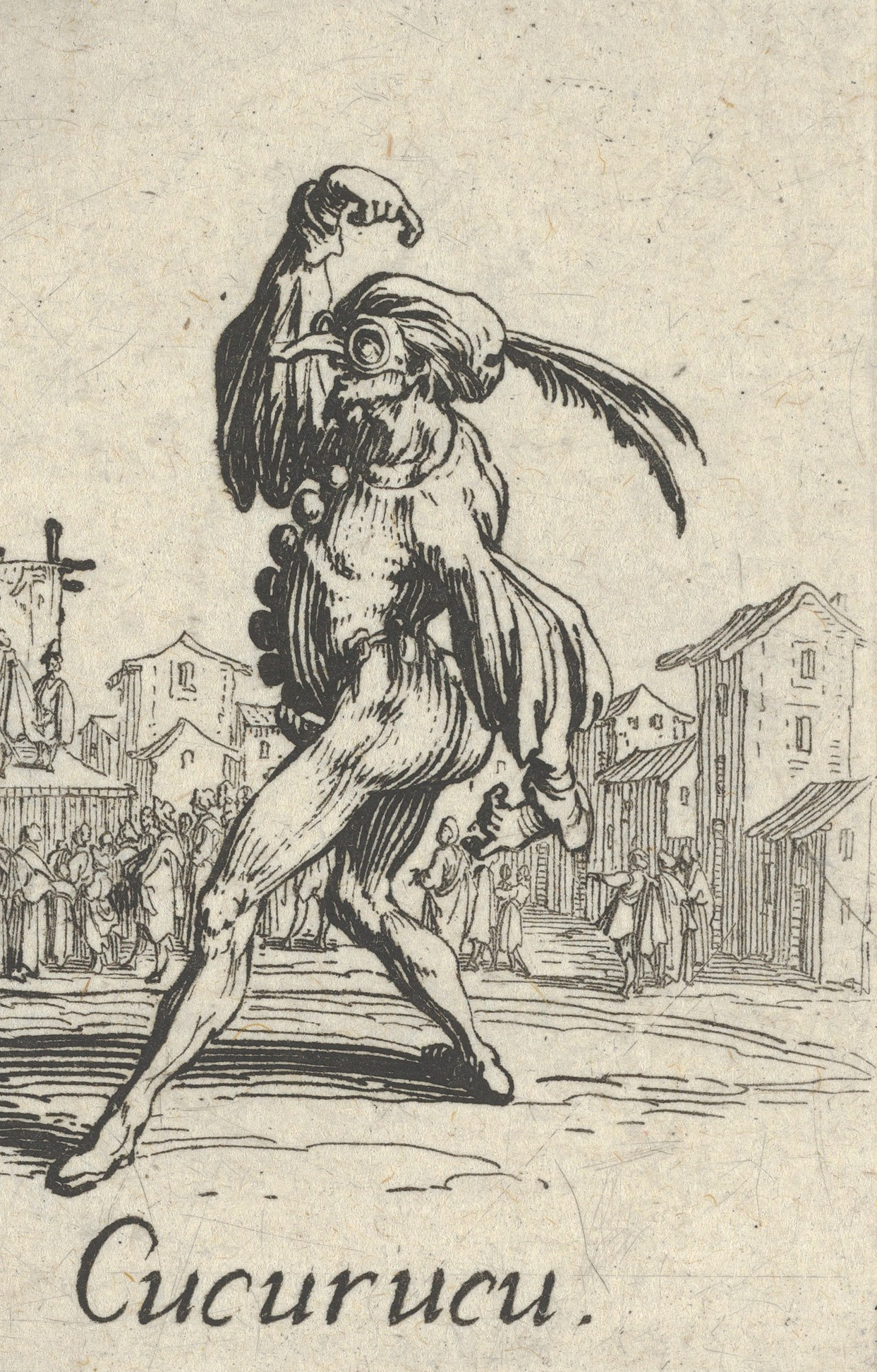 Print; Prints